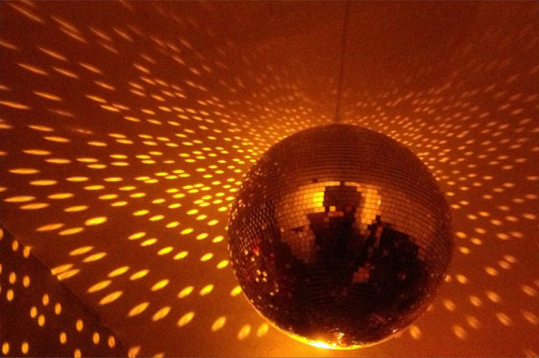 A disco ball at Club 64 in Dresden.